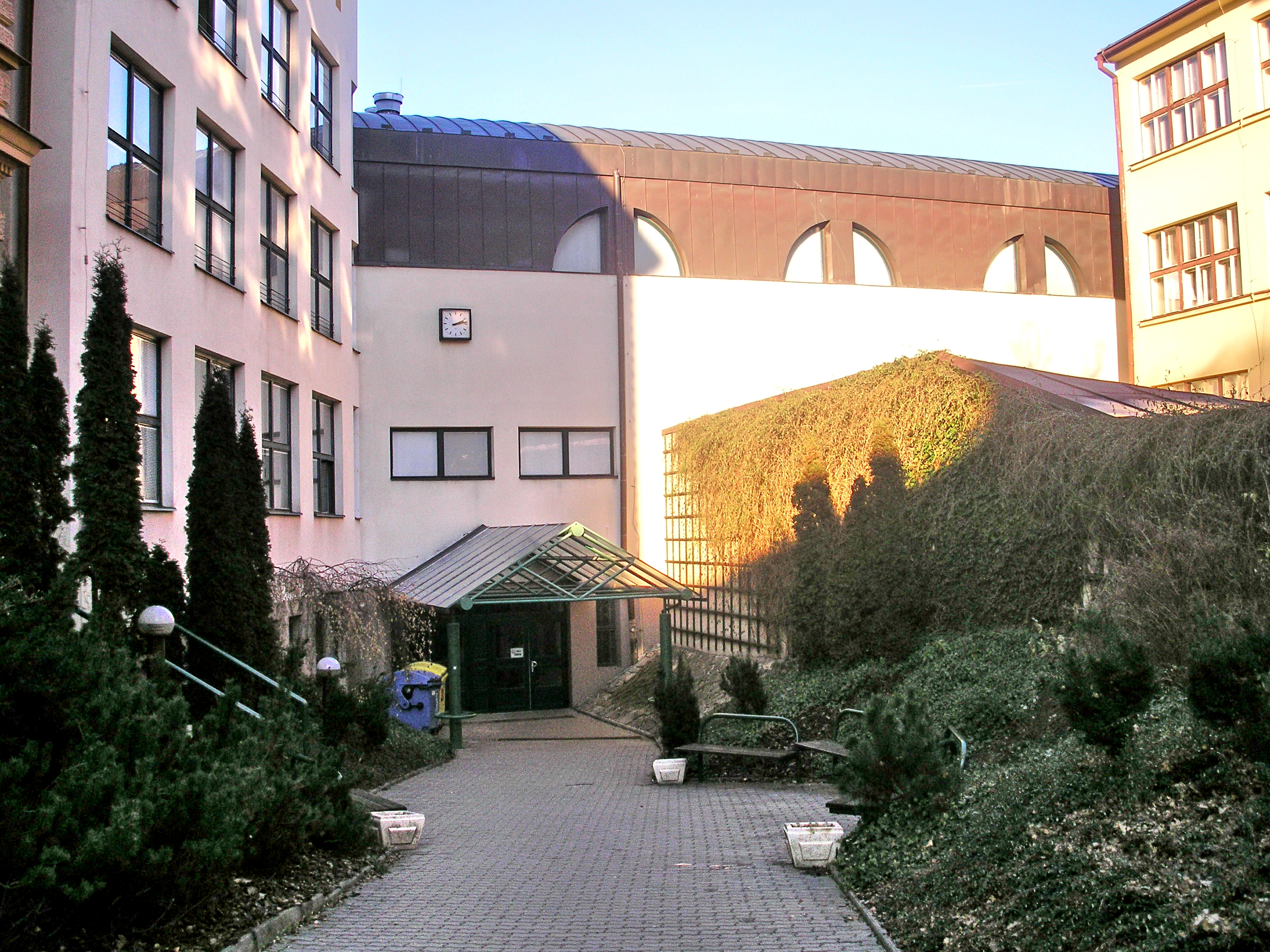 Entry for students in Gymnázium Třebíč in Třebíč.